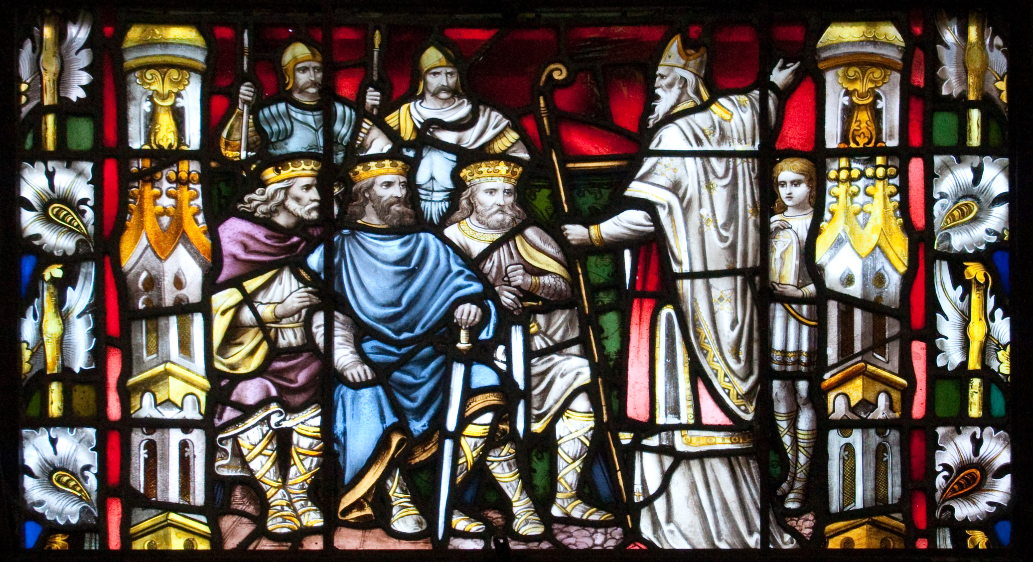 Carlow, County Carlow, Ireland Bottom feature of the center stained glass window in the north transept of Carlow Cathedral of the Assumption, showing St Patrick Preaching to the Kings. Created by Franz Mayer & Co. in the 19th century. Franz Borgias Mayer (1848–1926) Alternative names Mayer, FranzDescriptionGerman stained-glass artistDate of birth/death 1848 1926 Work location Munich Authority control : Q21000395 VIAF: 80993958 GND: 136691900 creator QS:P170,Q21000395